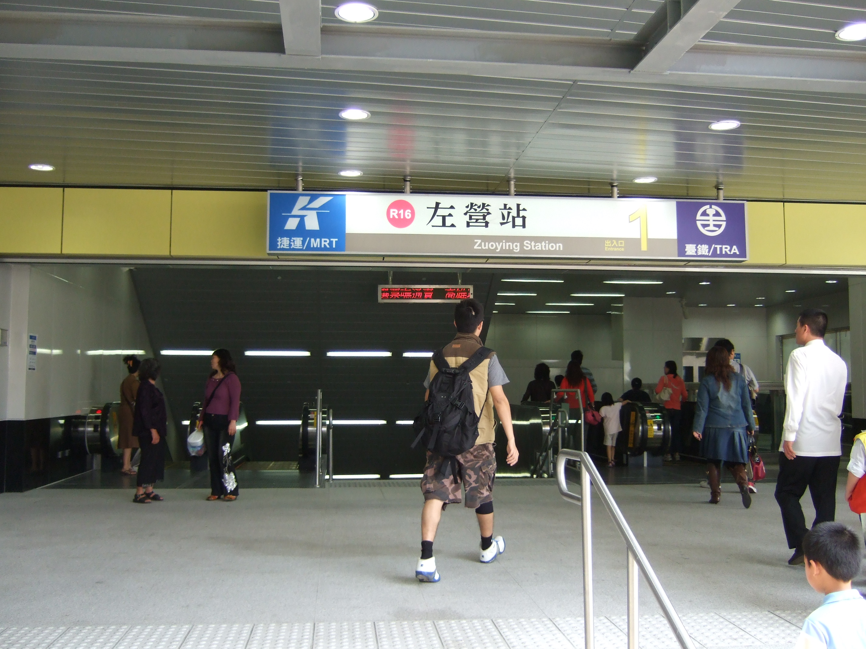 Exit 1, Zuoying Station, Kaohsiung MRT.